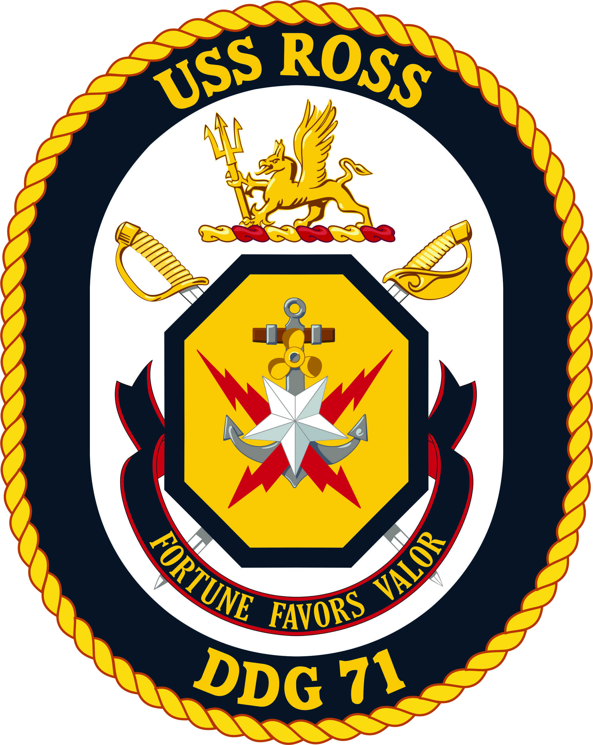 Emblem of the USS Ross (DDG-71)